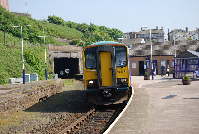 Carlisle train pulls into Whitehaven Station